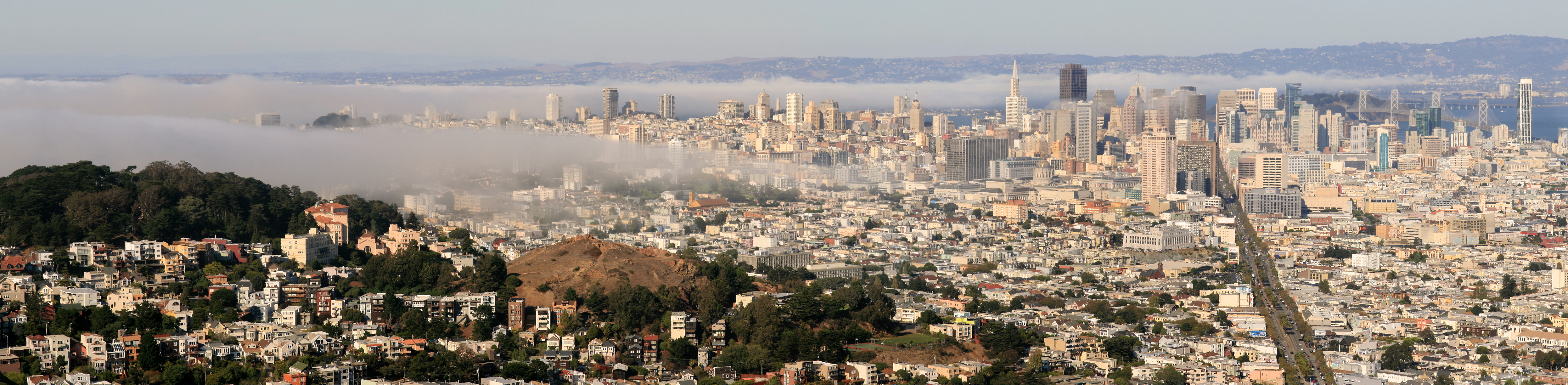 San Francisco with approaching fog.